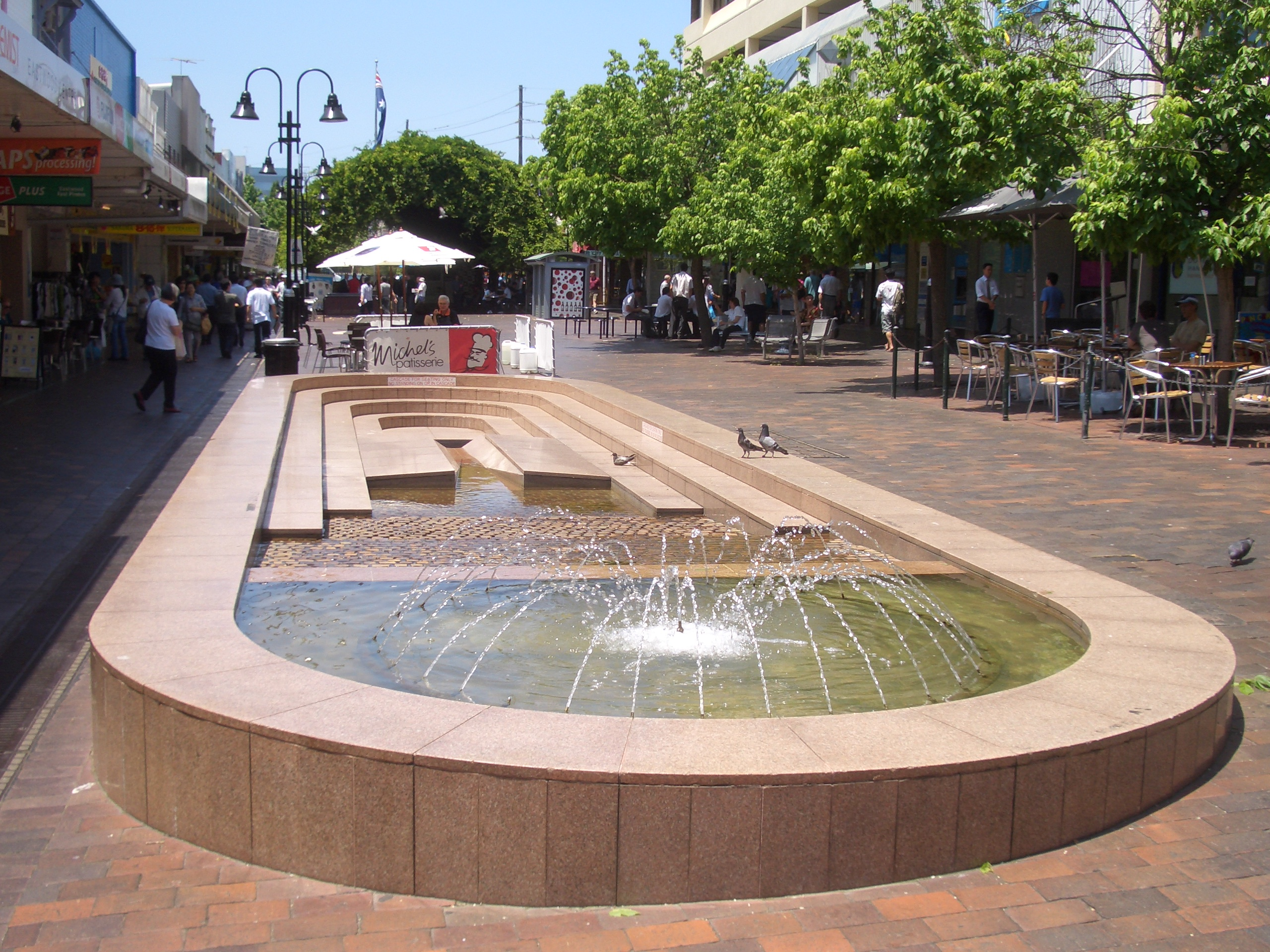 Fountain in Rowe Street mall, Eastwood